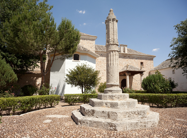 Ermita de la Purísima Concepción; Tembleque, Castilla la Mancha, Toledo, Spain; ; ref: PM_080106_E_Tembleque; Ermita de la Purísima Concepción; Photographer: Paul M.R. Maeyaert; © Paul M.R. Maeyaert; ; Cultural heritage; Europeana; Europe/Spain/Tembleque (Castilla la Mancha)